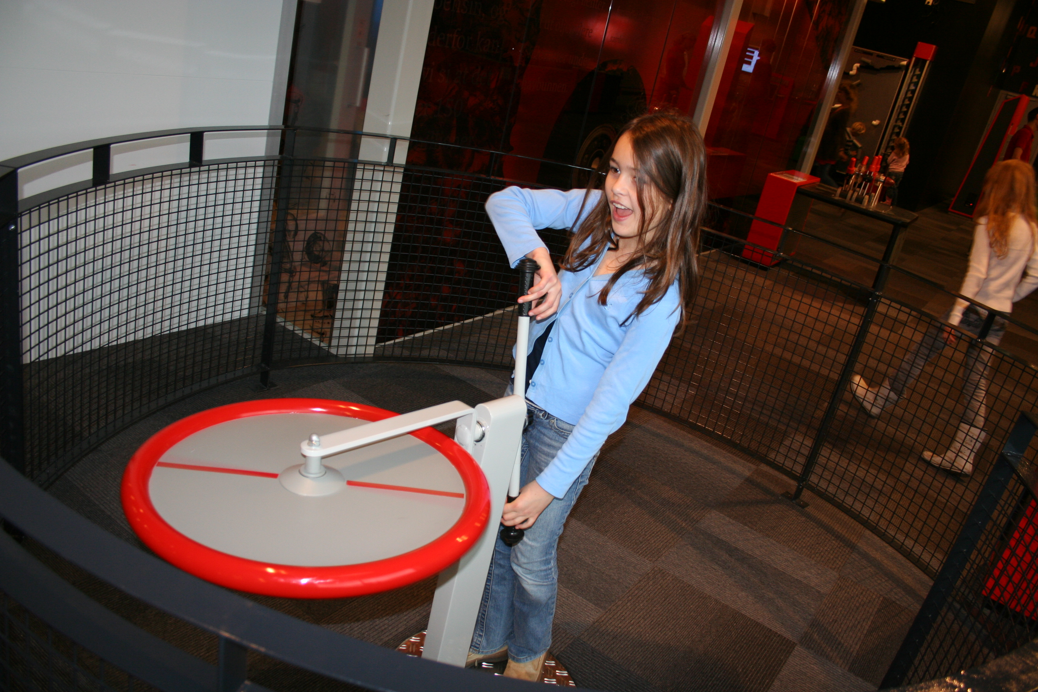 A girl exploring the gyroscopic wheel - it is hard to turn while the wheel is spinning, because of the gyroscopic effect.